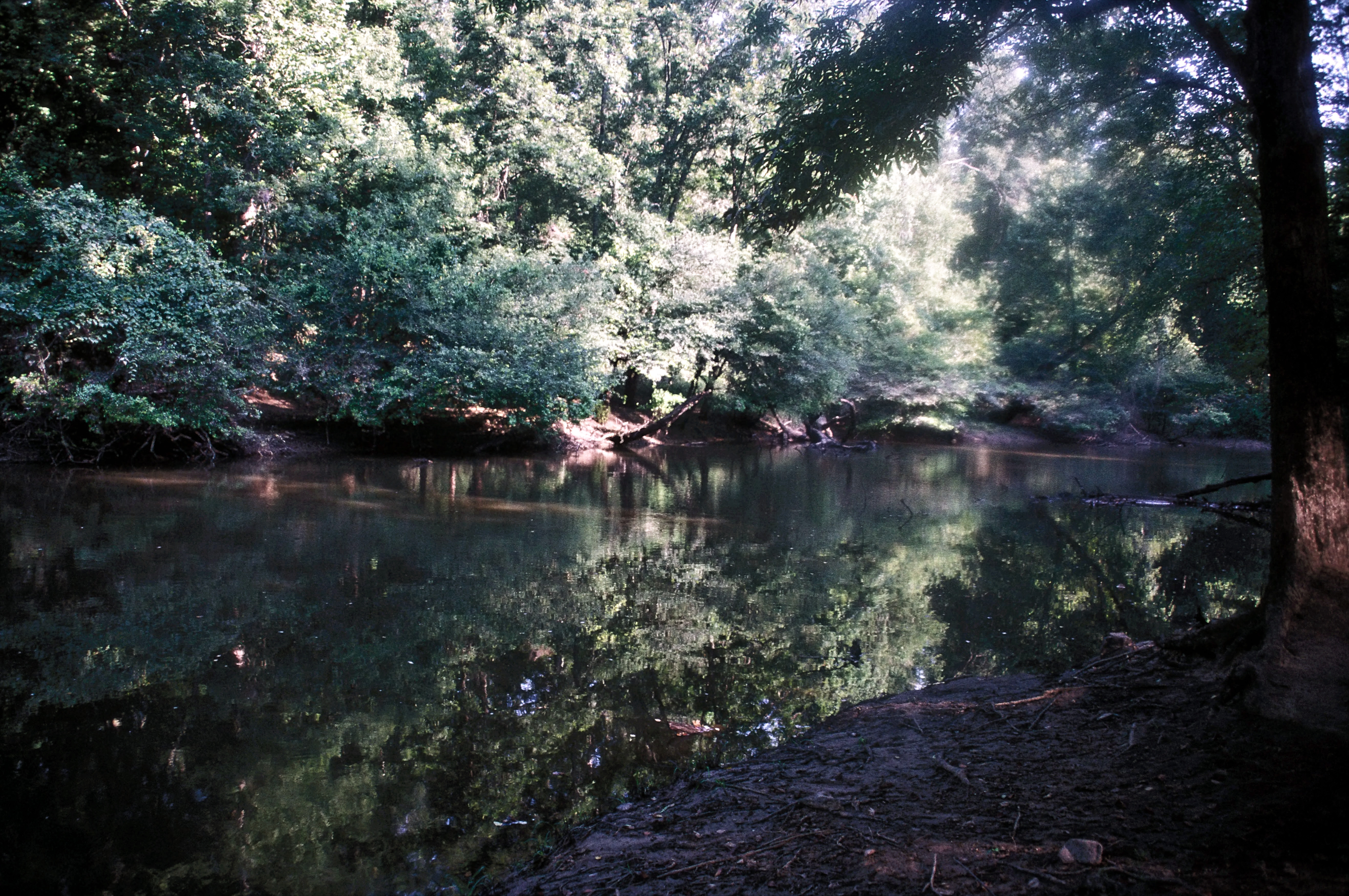 TROOPS UNDER MAJOR GENERAL FREDERICK STEELE HAD TO RETREAT BACK TO LITTLE ROCK FIGHTING REARGUARD BATTLES AS HE ATTEMPTED TO CROSS RAIN-SWOLLEN RIVERS. STEELE FOUGHT A BATTLE AT JENKINS FERRY ACROSS THE SALINE RIVER AND SUCCEEDED IN EXTRICATING HIS TROOPS AND MOST OF THEIR BAGGAGE SUCCESSFULLY. THIS PICTURE SHOWS THE FERRY CROSSING SITE IN THE STATE PARK